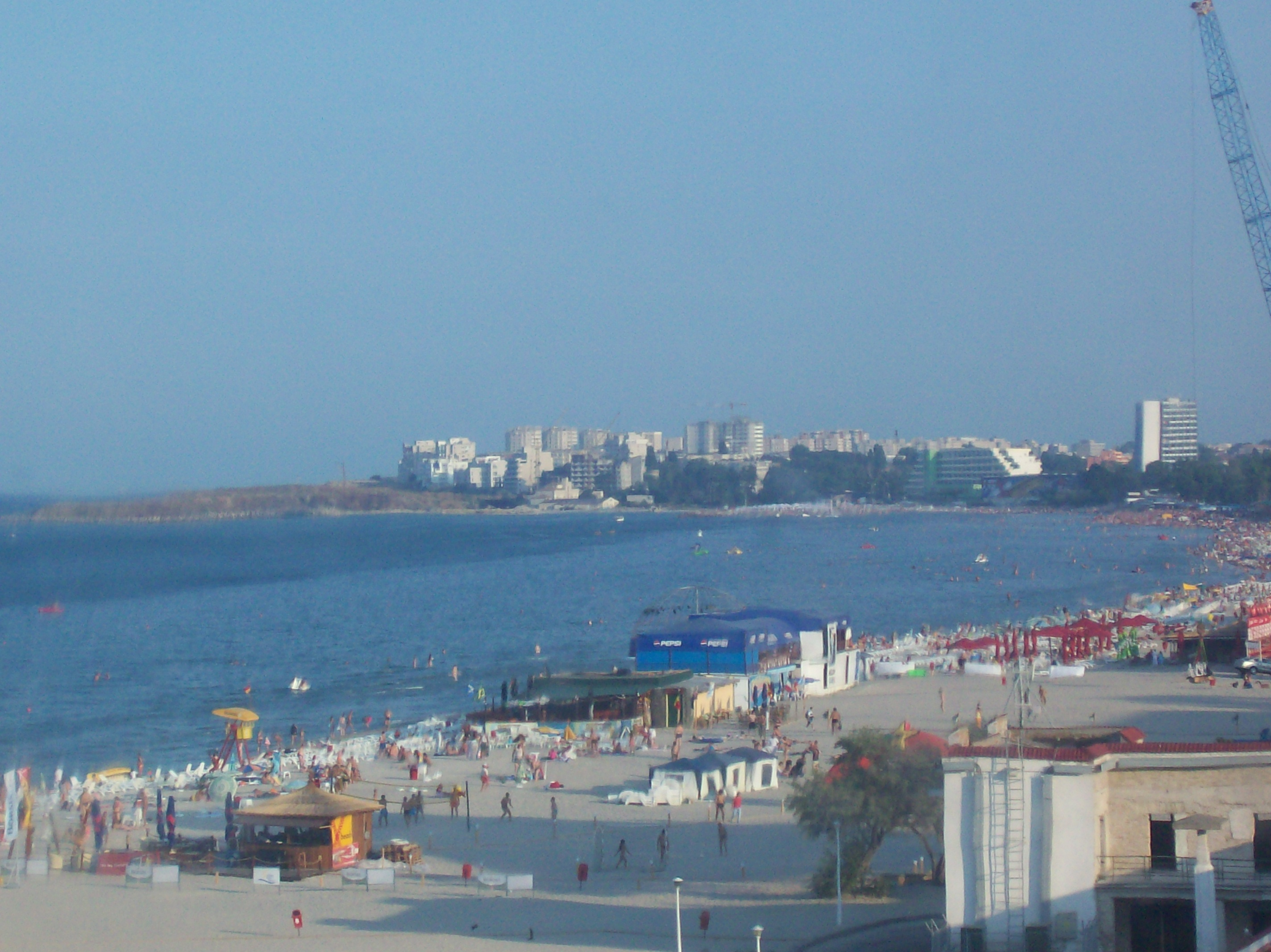 Beach.